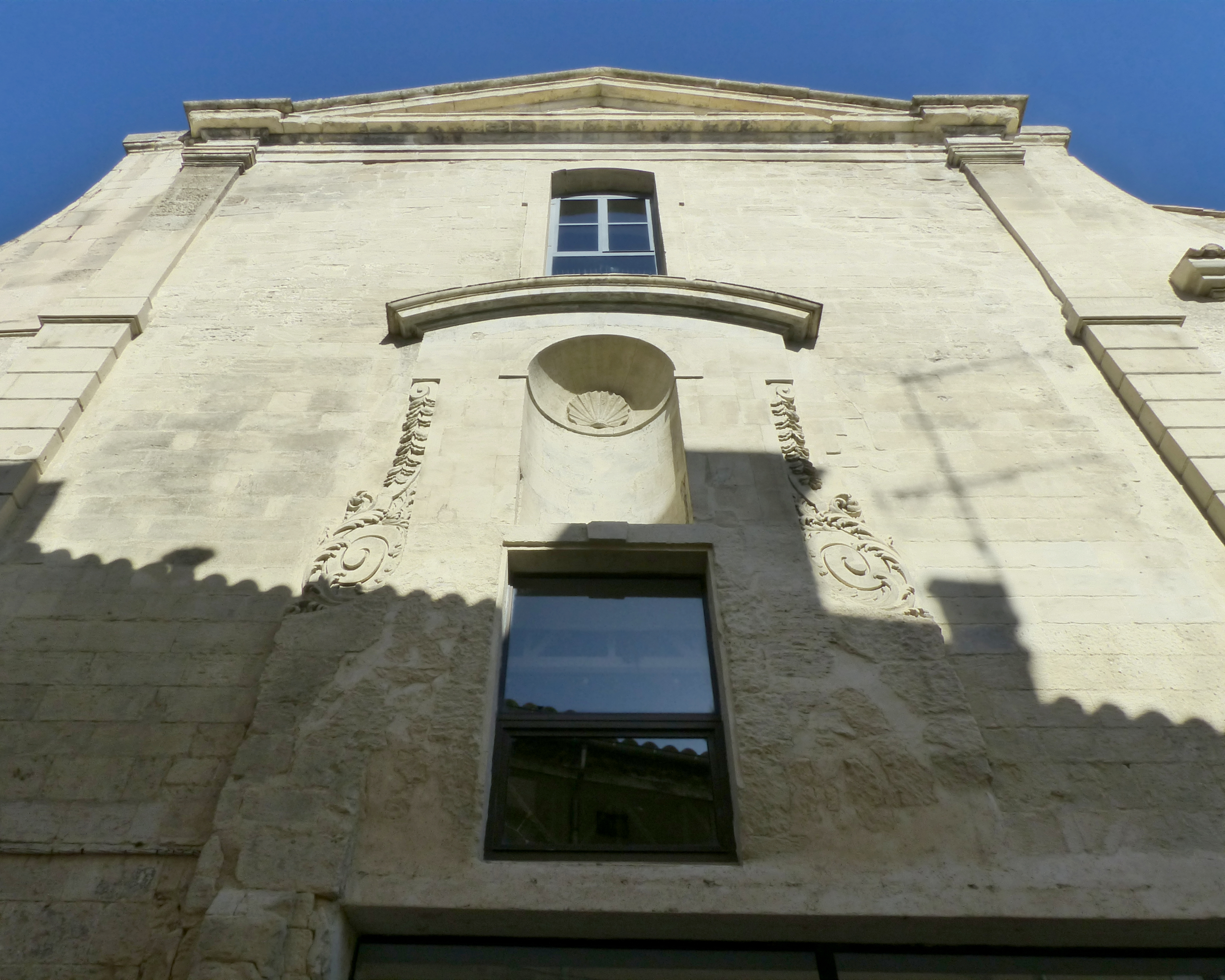 Arles (Bouches-du-Rhone, Provence, France), in the heart of the Roquette district, former Sainte-Croix church, now desecrated; the oldest parts of which date from the twelfth century as a priory under the Saint-Trophime cathedral ; at the 13th century church of the largest of the two parishes of the district of Vieux Bourg, current Roquette; the facade was redone in 1720. Thereafter the building was flanked by houses.